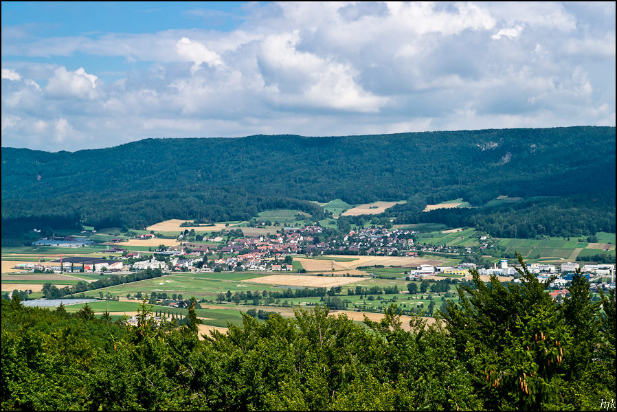 Village Otelfingen in the Furttal Valley